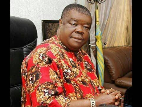 This is a photo image of Rev. Dr. Uma Ukpai